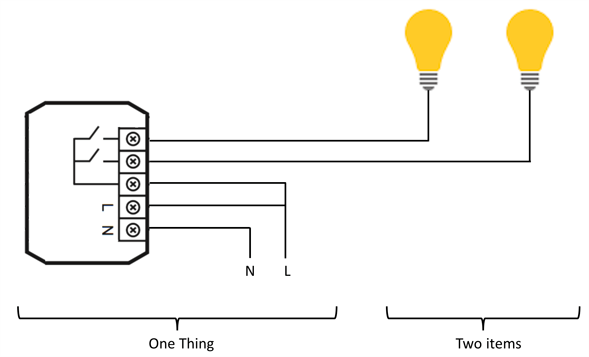 openHAB architecture